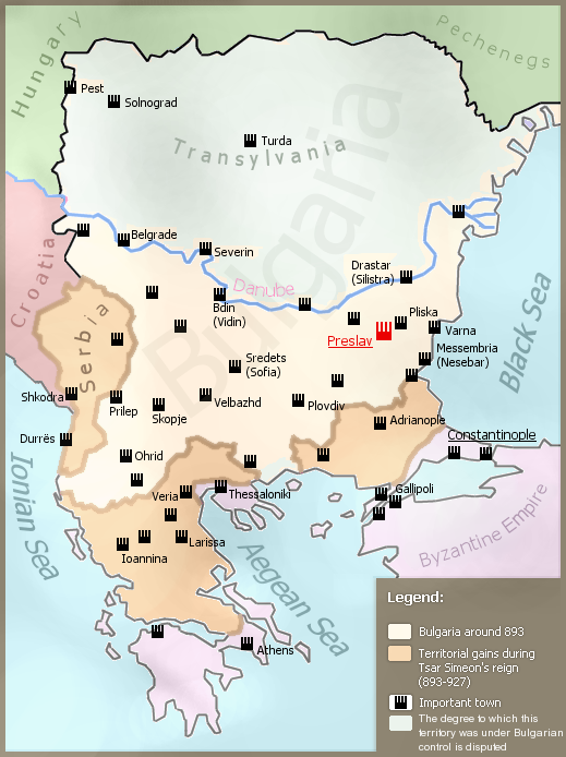 A map of the First Bulgarian Empire's greatest territorial extent during the reign of Tsar Simeon I (893-927). Drawn by me, Todor Bozhinov, and released under GFDL.